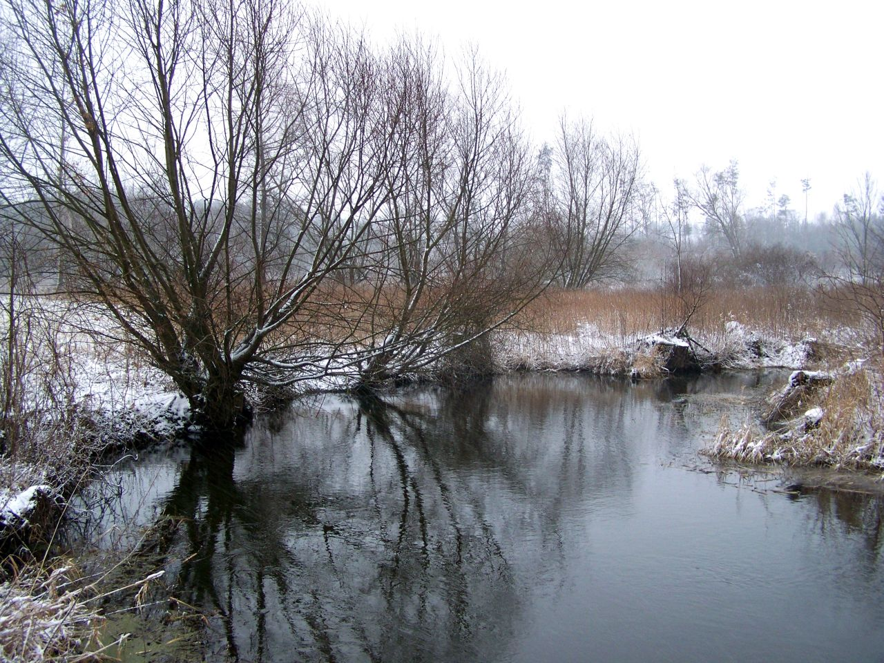 Cetynia-river near Nieciecz, Poland.